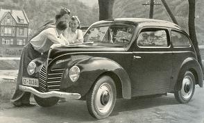 Ford Taunus - German original factory photo from 1939